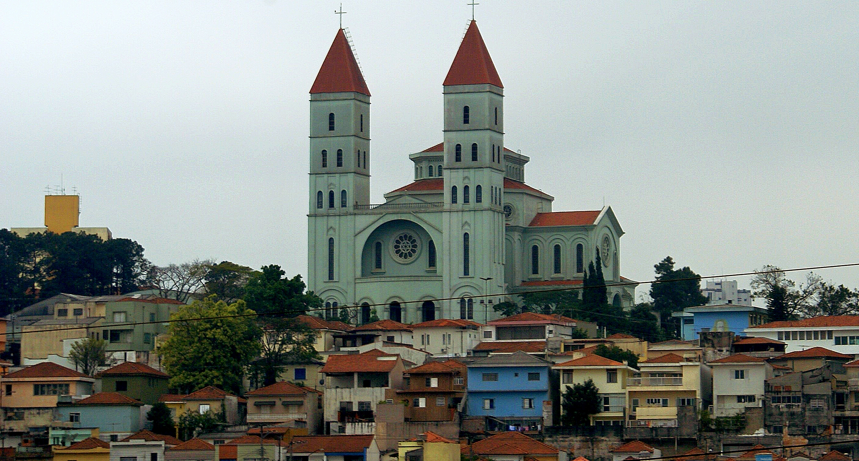 Penha's Church, East Zone of São Paulo City, Brazil.